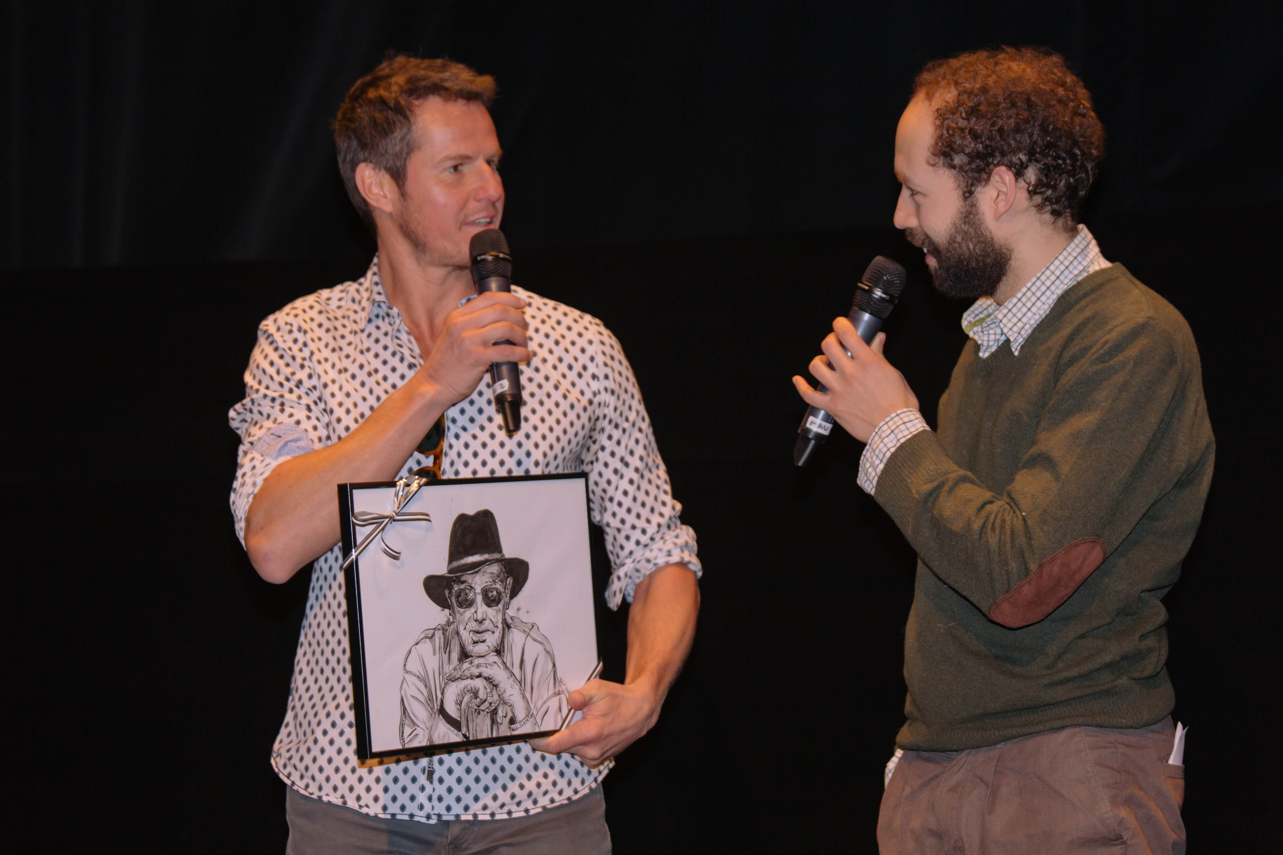 Ricardo Trêpa, grandson of Manoel D'Oliveira, Portugal's most famous movie director, receiving a souvenir from FramesFestival in 2016